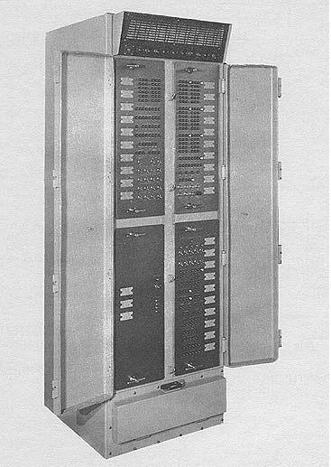 Photo of UNIVAC 1218.